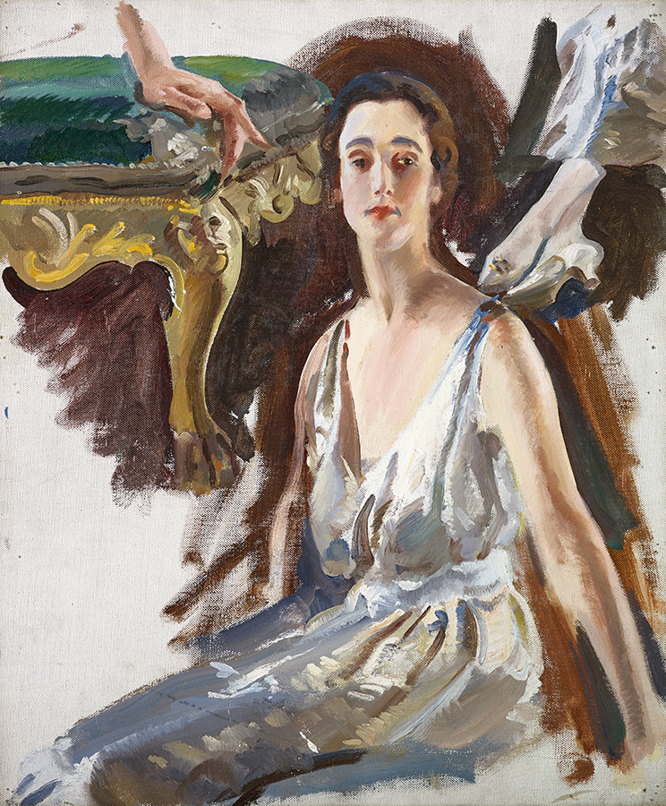 Oil on canvas portrait of Sybil Cholmondeley (nee Sassoon), Countess of Rocksavage; later Marchioness of Cholmondeley. Preparatory work for the artist's The Countess of Rocksavage and her Son. Acquired in 2017 by the Grosvenor Museum, Cheshire.